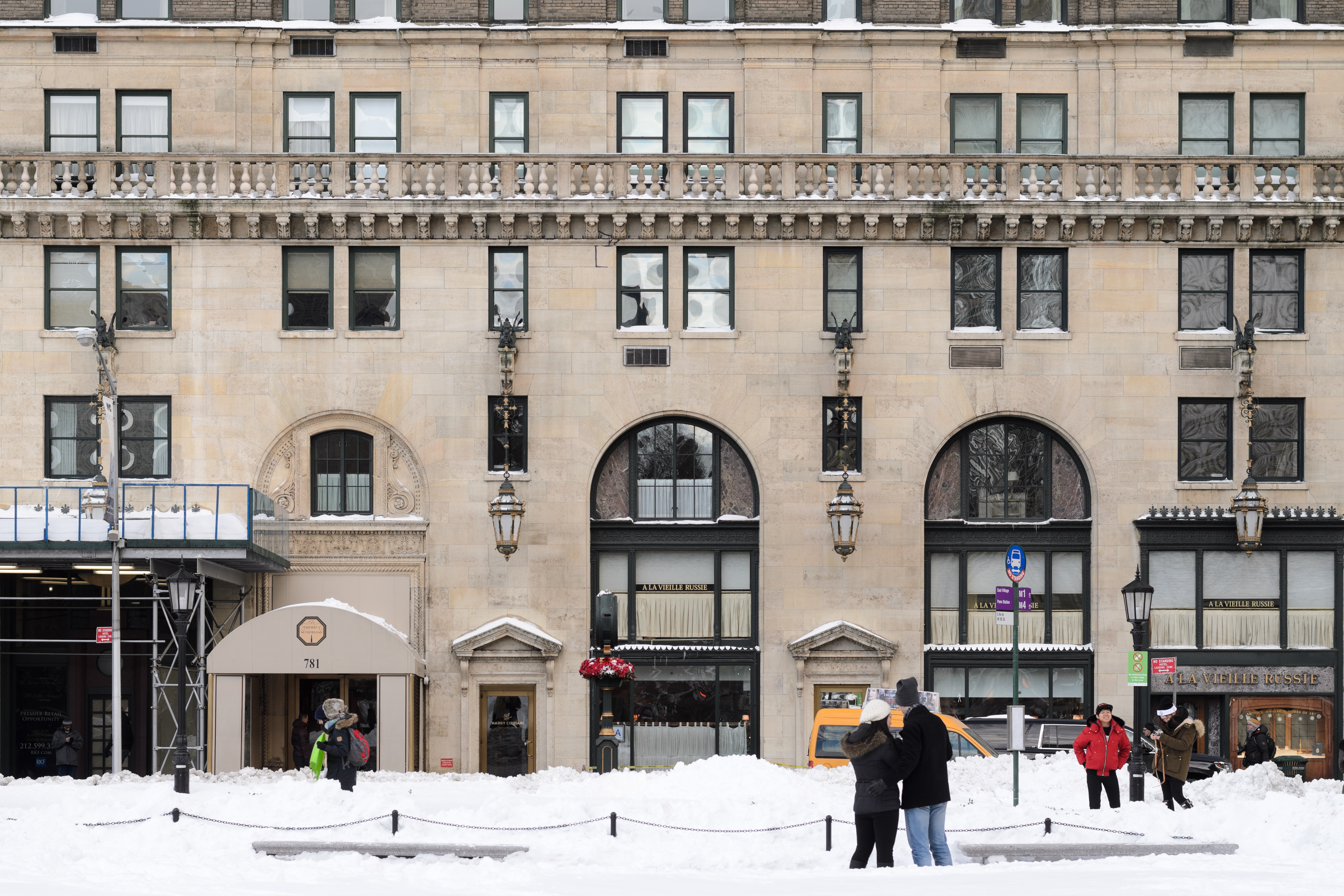 The Sherry-Netherland, New York City, after the January 2016 United States blizzard.